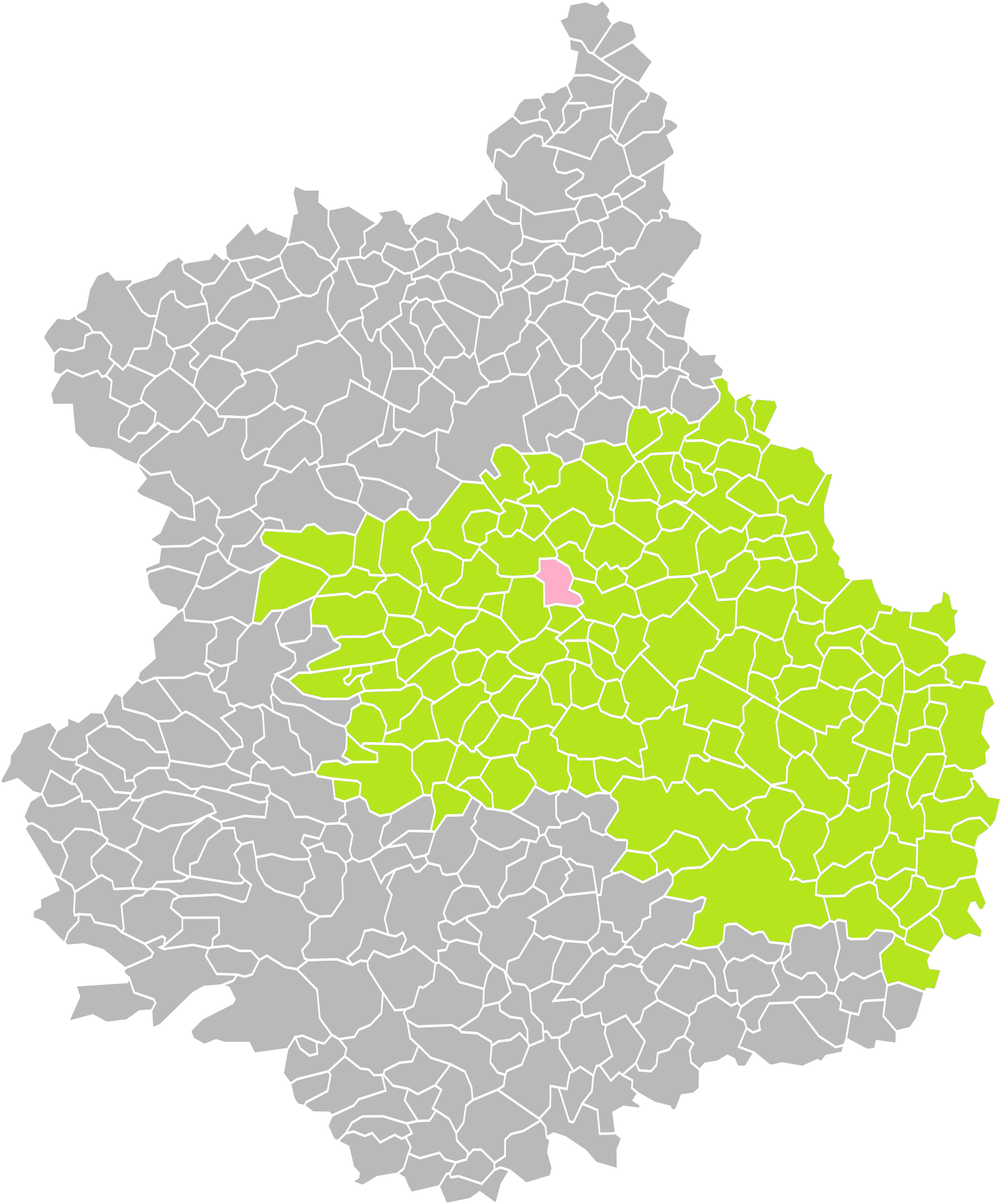 Location of the commune of Mainvilliers in the arrondissement of Chartres (Eure-et-Loir)